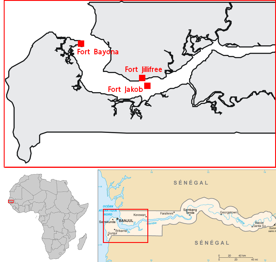 Courland colonization posts in the Gambia